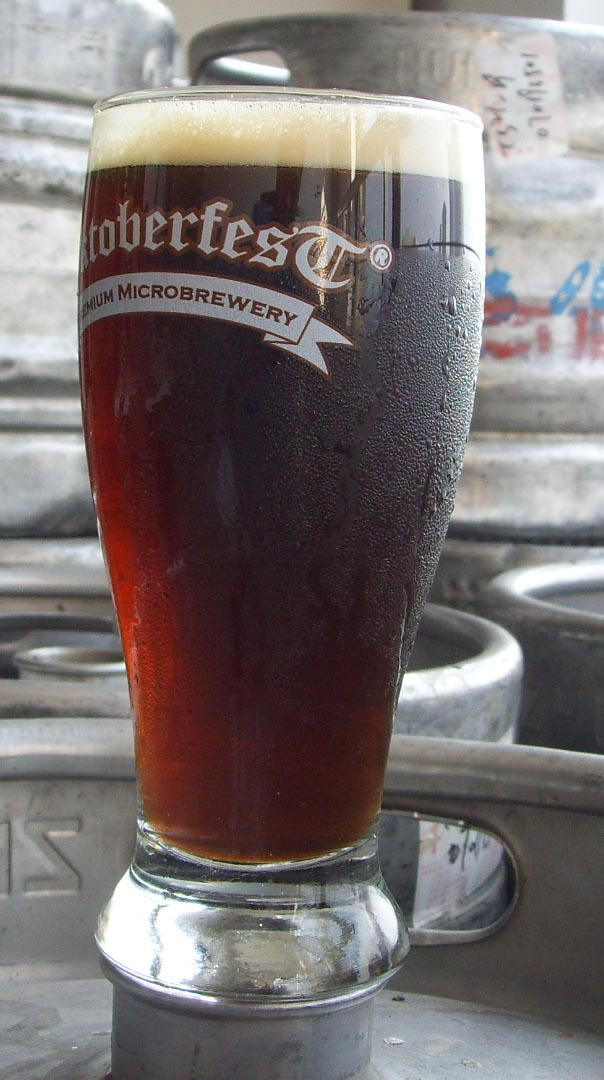 Oktoberfest beer just poured out from a keg. location: Oktoberfest Microbrewery